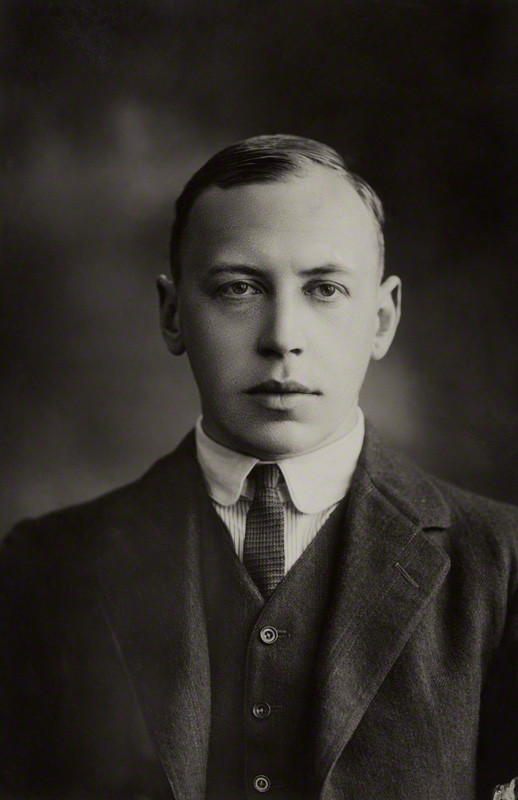 Portrait of Alfred Noyes, by Alexander Bassano, 1922.